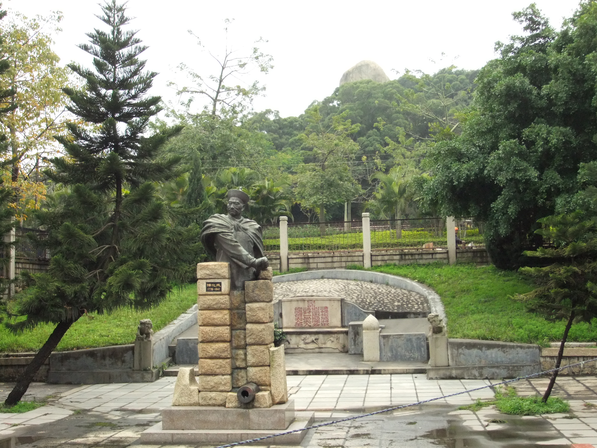 Tomb of Chen Huacheng in Xiamen